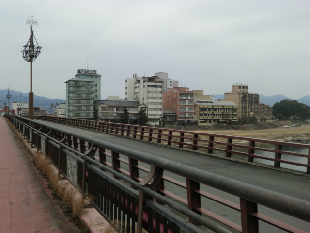 Harazuru Onsen(Hot spring) of Asakura city in Fukuoka prefecture,Japan.